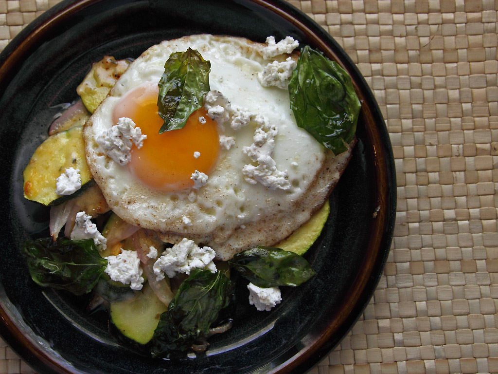 Fried Egg - Zucchini gratin topped with fried egg, goat cheese and fried basil.